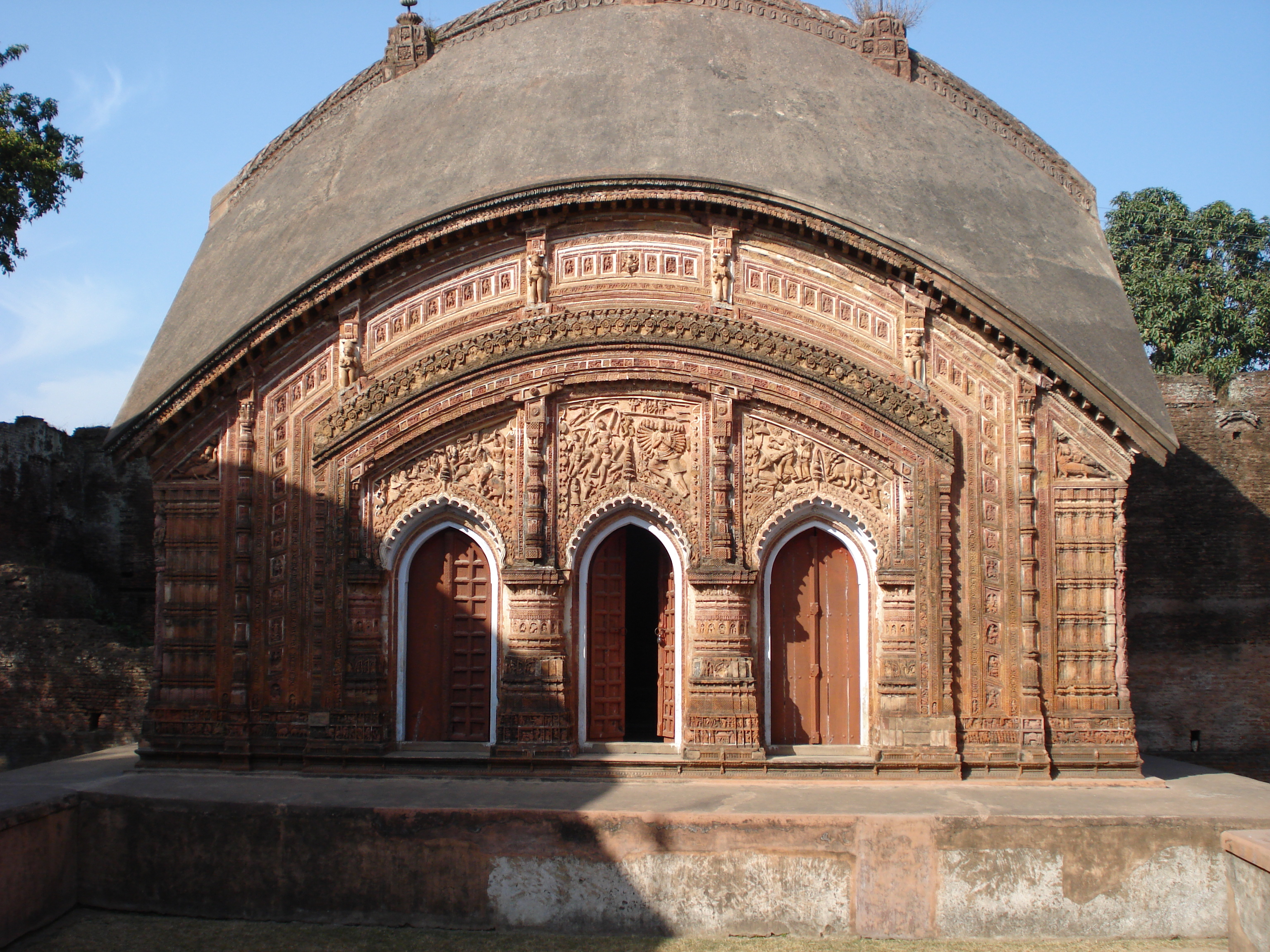 terracotta art